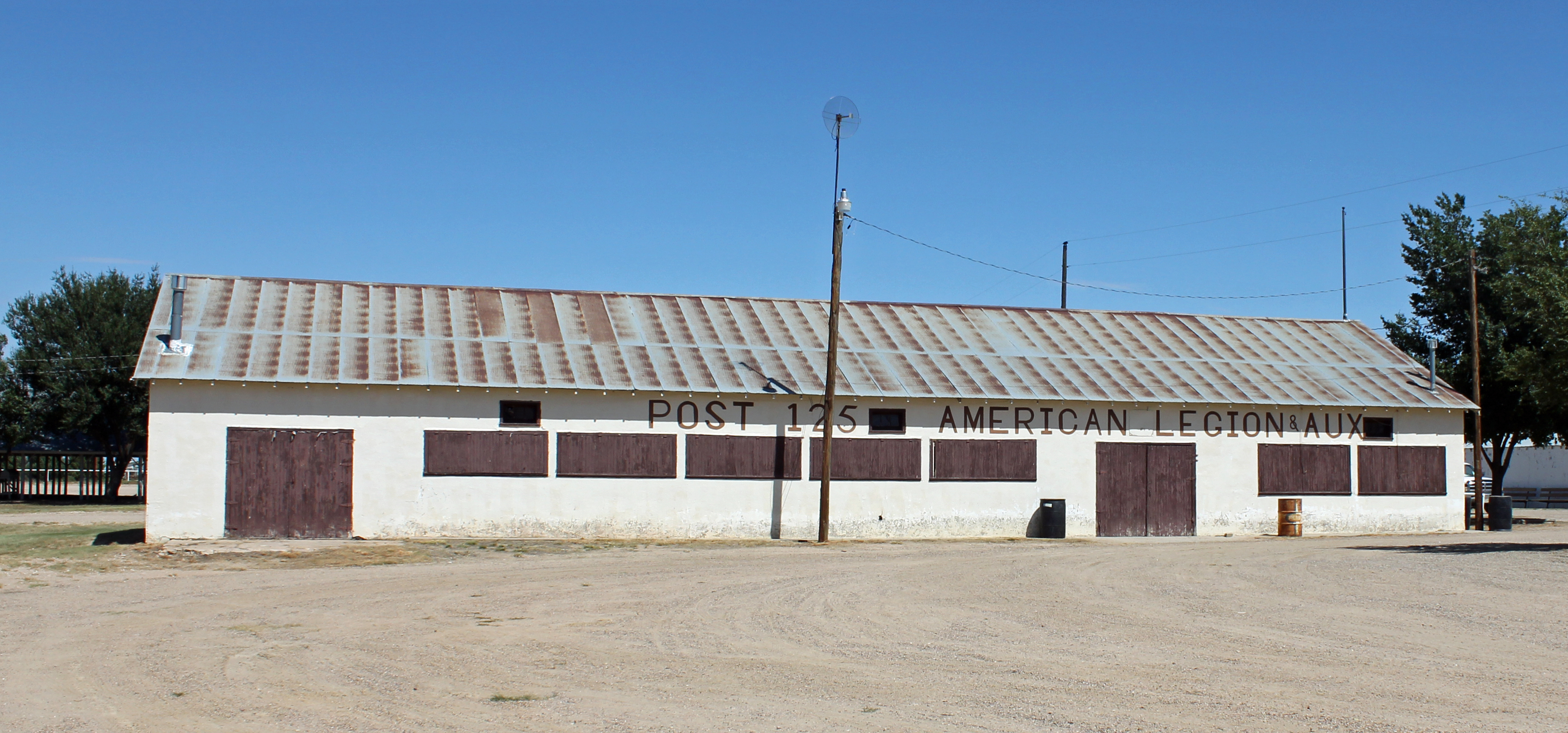 The American Legion Hall in Eads, Colorado. Located on the Kiowa County Fairgrounds, the property is listed on the National Register of Historic Places.